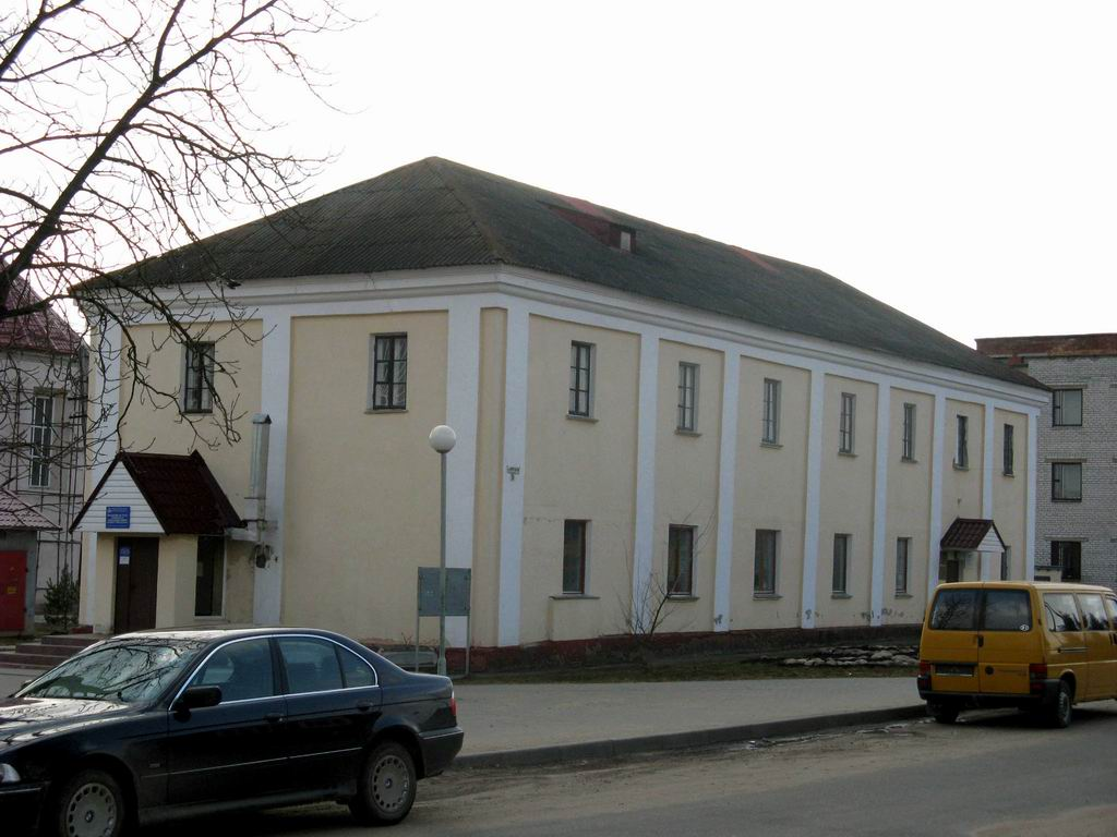 In Klecka was once a Dominican monastery, on which was a residential building (1784-1810 gg.) In the Baroque style